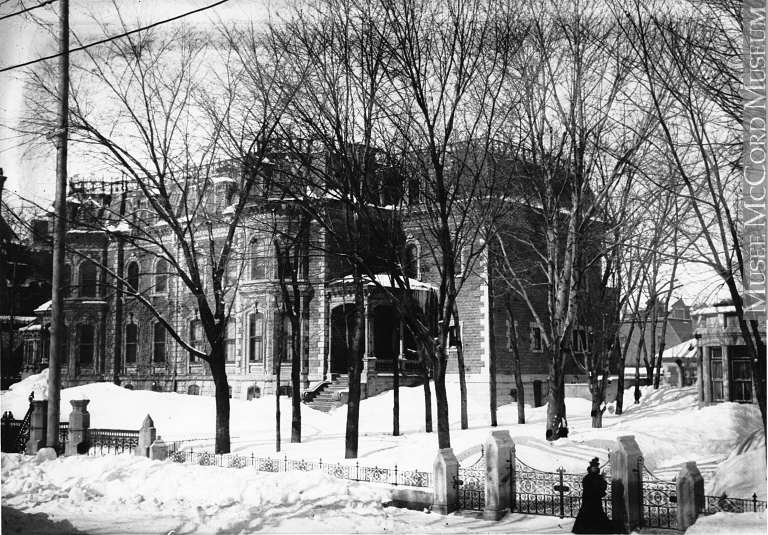 Photograph "Shaughnessy House", Dorchester Street, Montreal, QC, about 1900 Wallis & Shepherd About 1900, 19th century or 20th century Silver salts on glass - Gelatin dry plate process 6 x 8 cm MP-0000.27.10 © McCord Museum